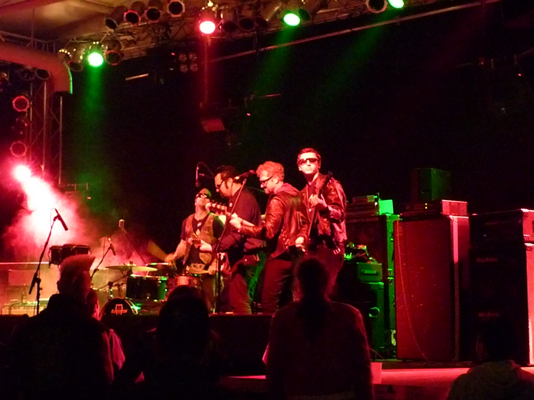 Deadbolt live at the Essigfabrik, Cologne (2010-03-27)